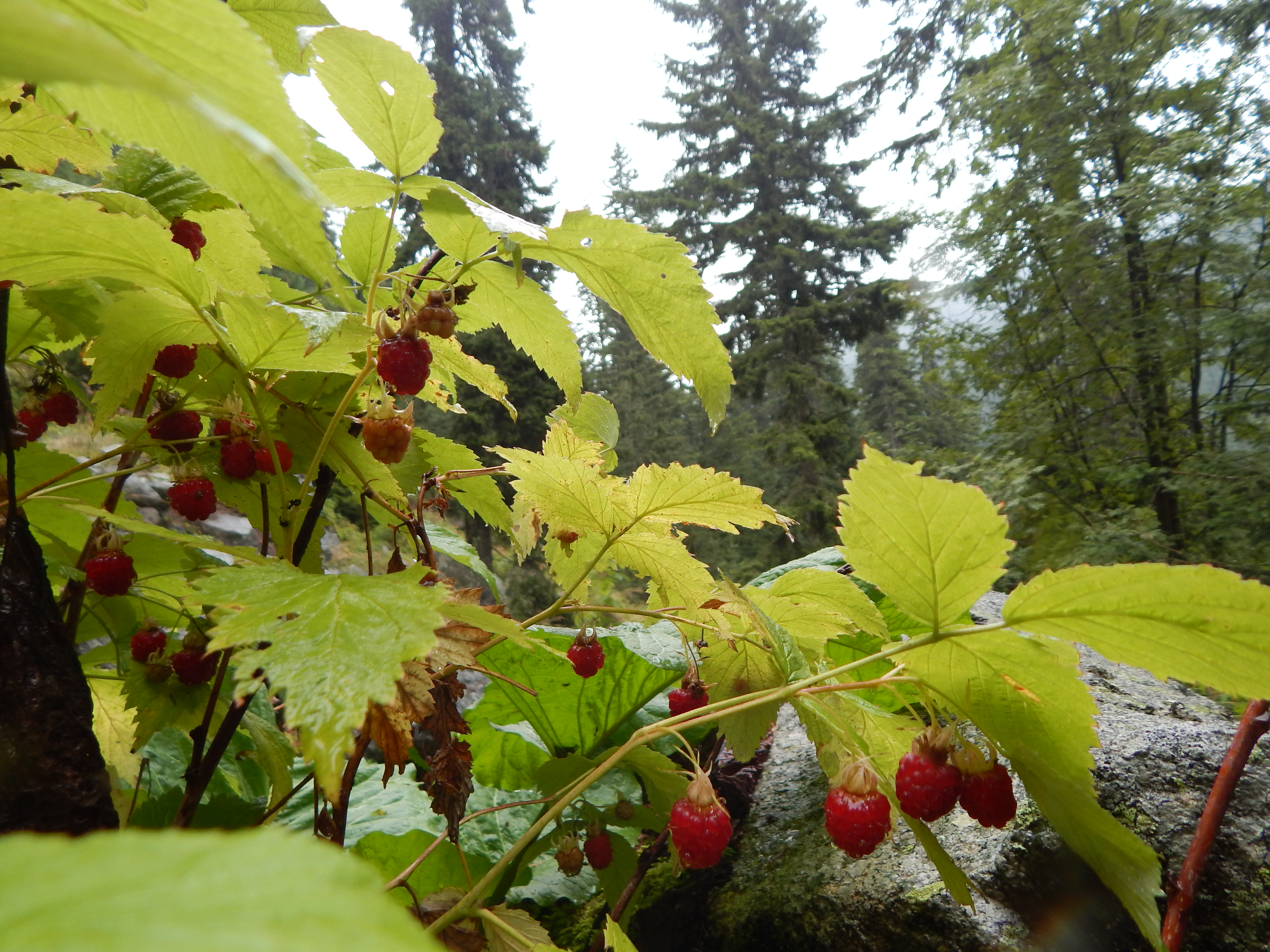 Small delights in Rila National Park